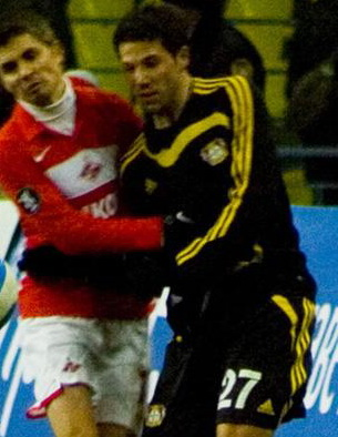 Gonzalo Castro